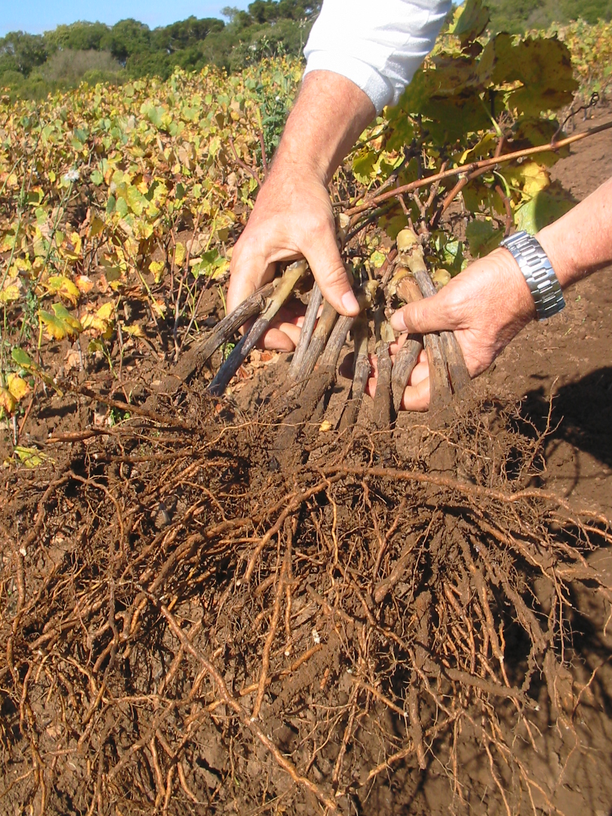 edgar's hand with grafted vines